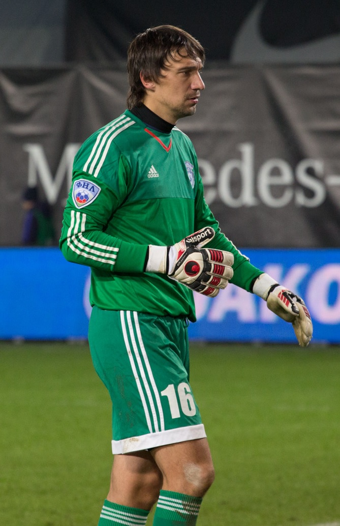 Artyom Fyodorov with FC Sokol Saratov in a game against FC Dynamo Moscow.